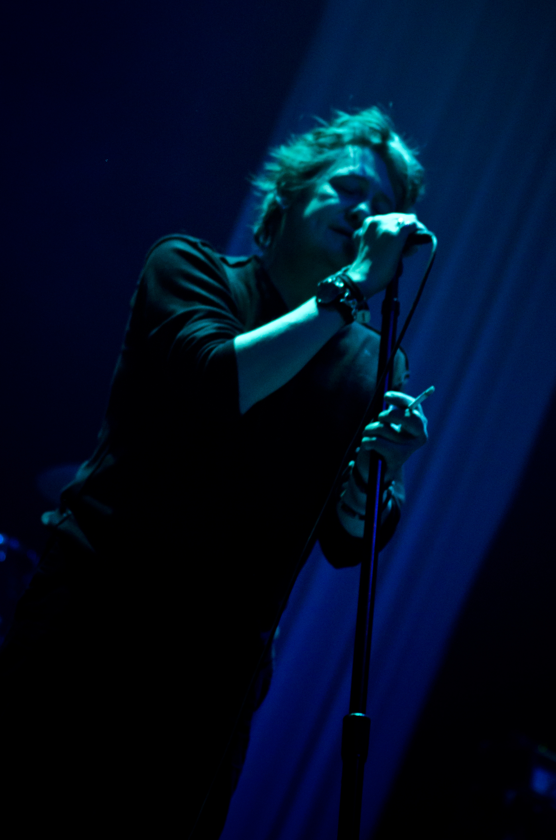 Shane MacGowan, the performance of The Pogues